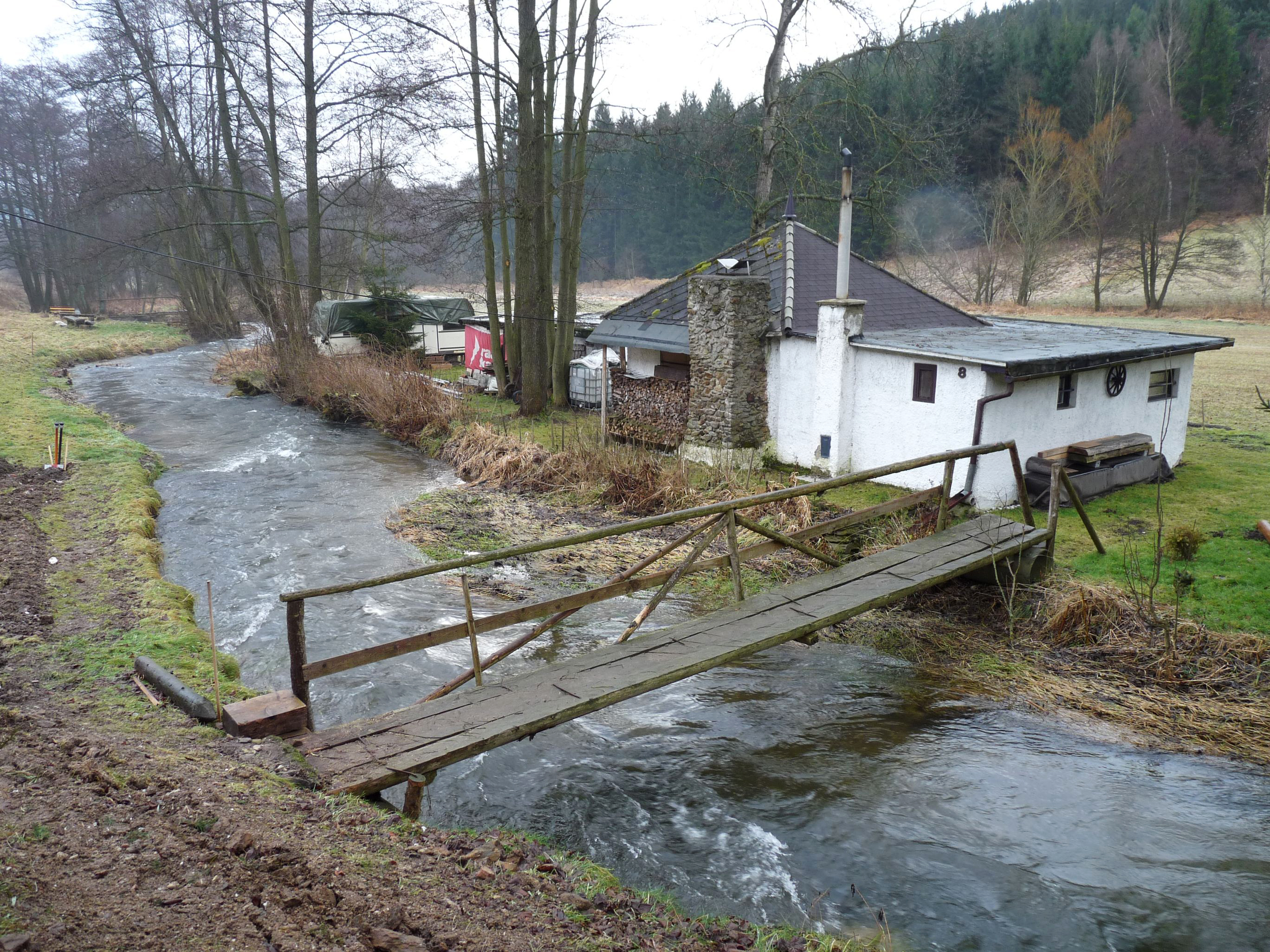 Footbridge over the Volšovka Stream in the village of Františkova Ves, Klatovy District, Plzeň Region, Czech Republic.